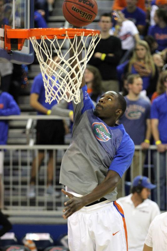 Florida Gators vs Mississippi State Basketball 2015/01/10